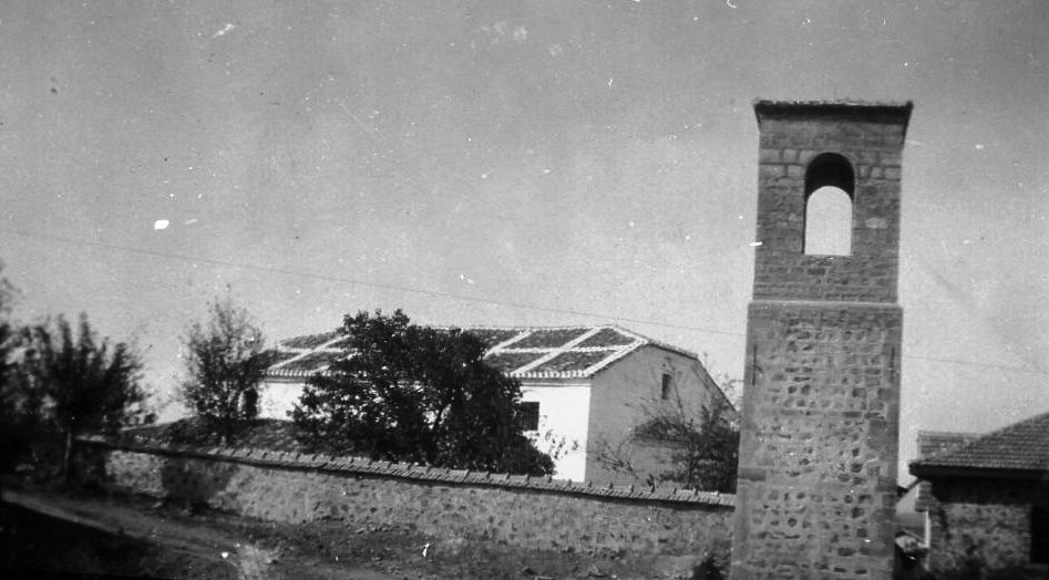 Furka, Macedonia, 1931 This media file is produced by Wikipedian in Residence in Category:Wikipedian in Residence at DARM in 2016.